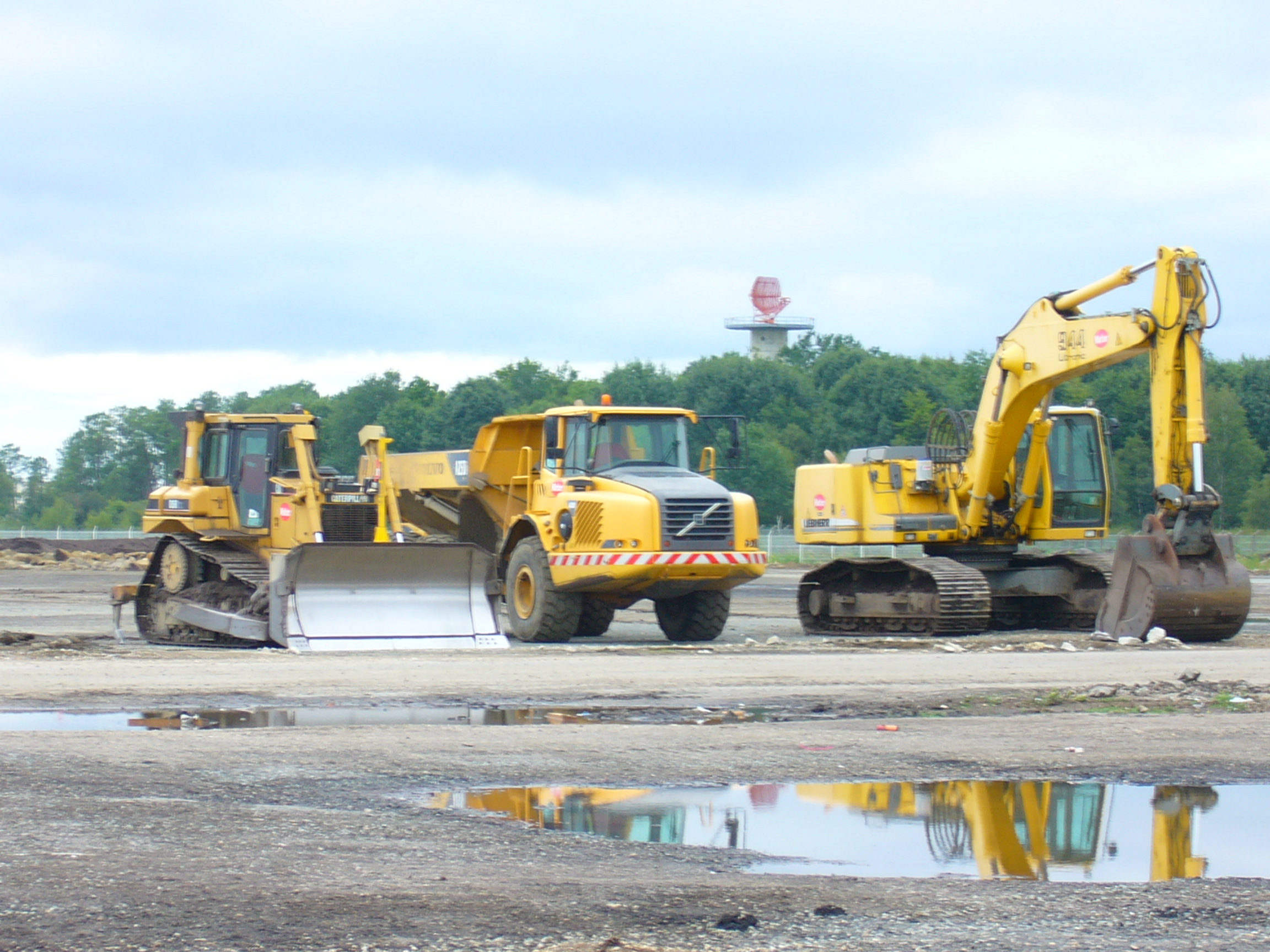 Heavy equipment (construction) – a Caterpillar bulldozer, a Volvo dump truck, and a Liebherr excavator